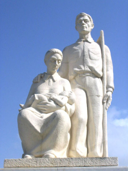 Puerto Rican Jíbaro monument by sculptor Tomás Batista.